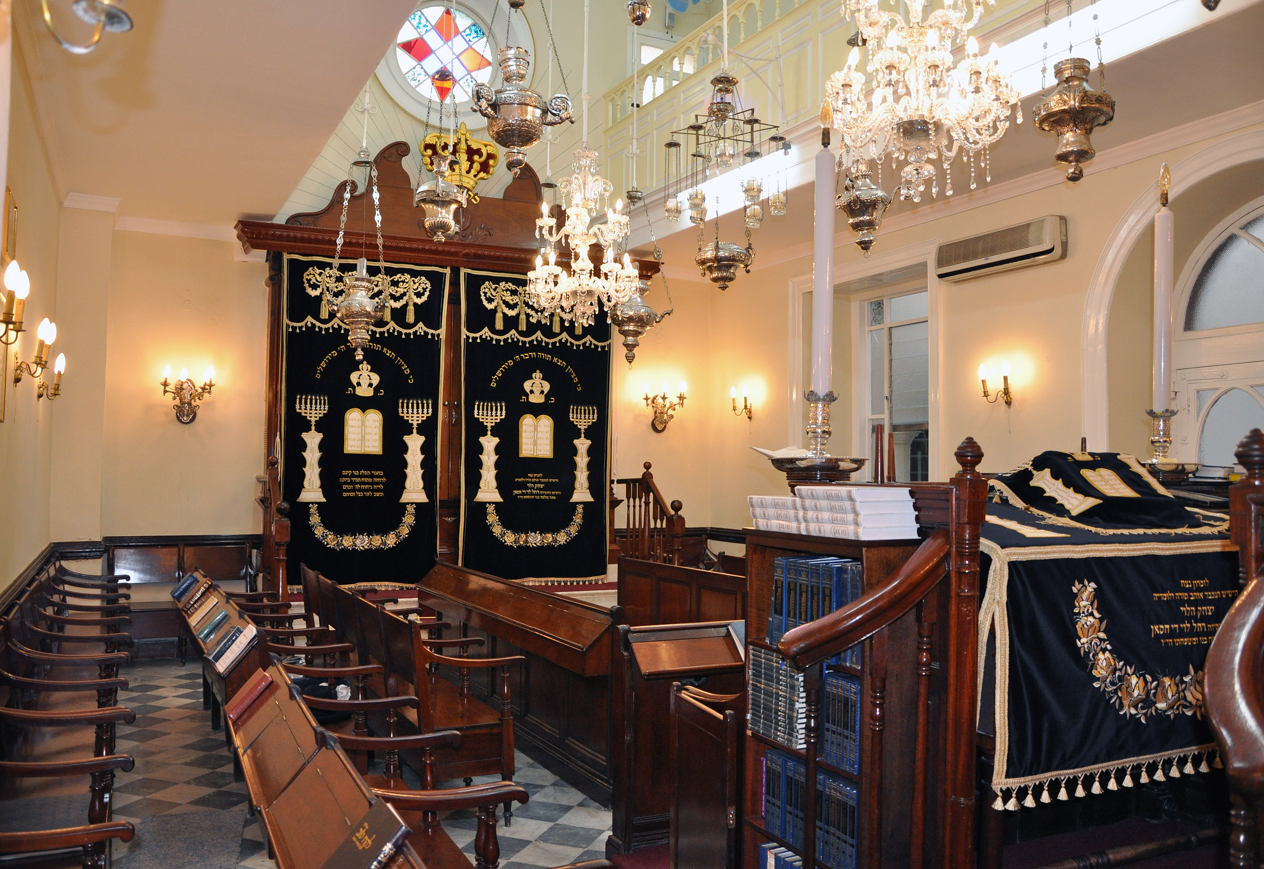 Abudarham Synagogue inside Gibraltar